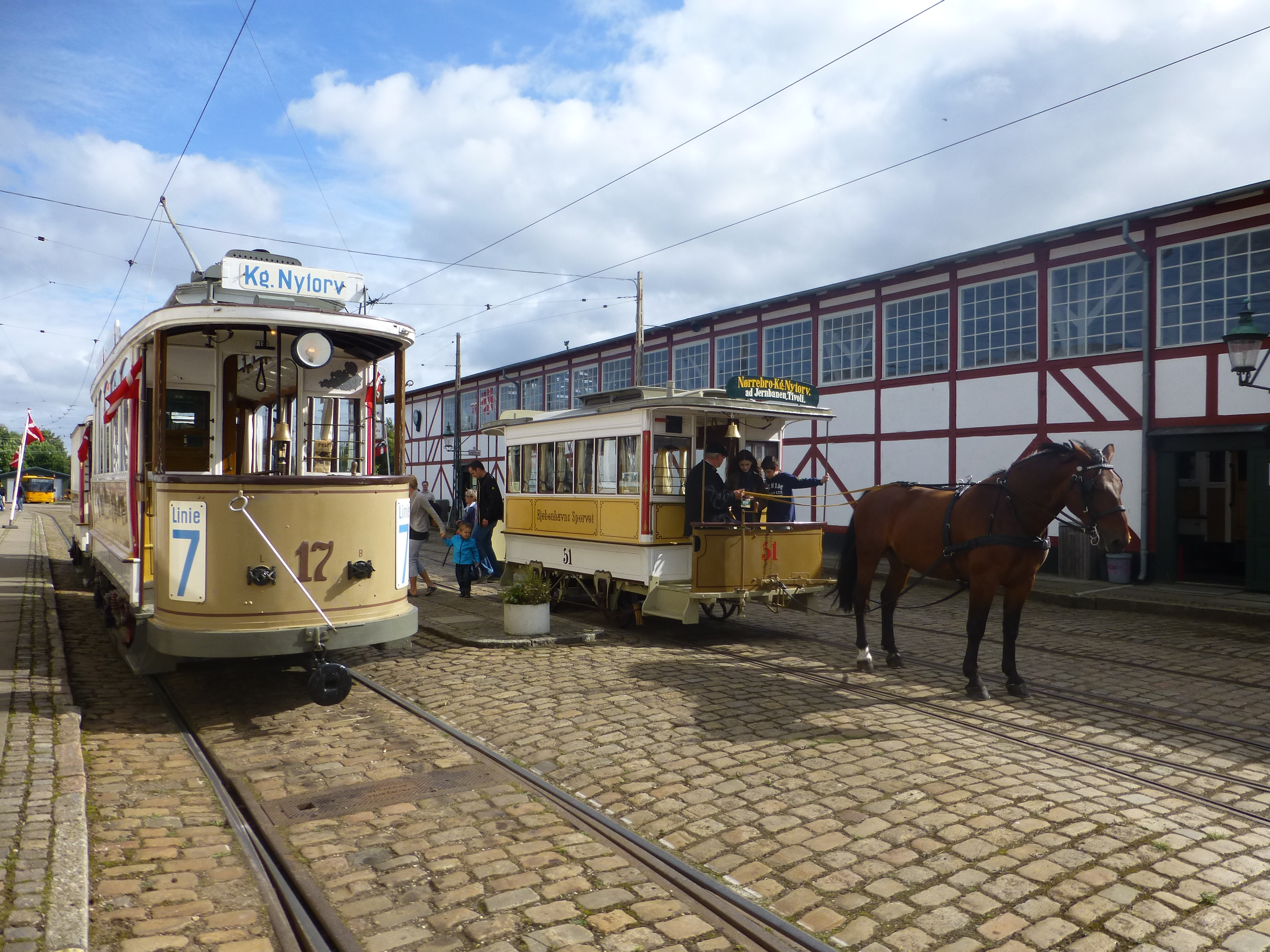 Old trams from Copenhagen DKS 17 and KSS 51 at Sporvejsmuseet Skjoldenæsholm in Denmark.